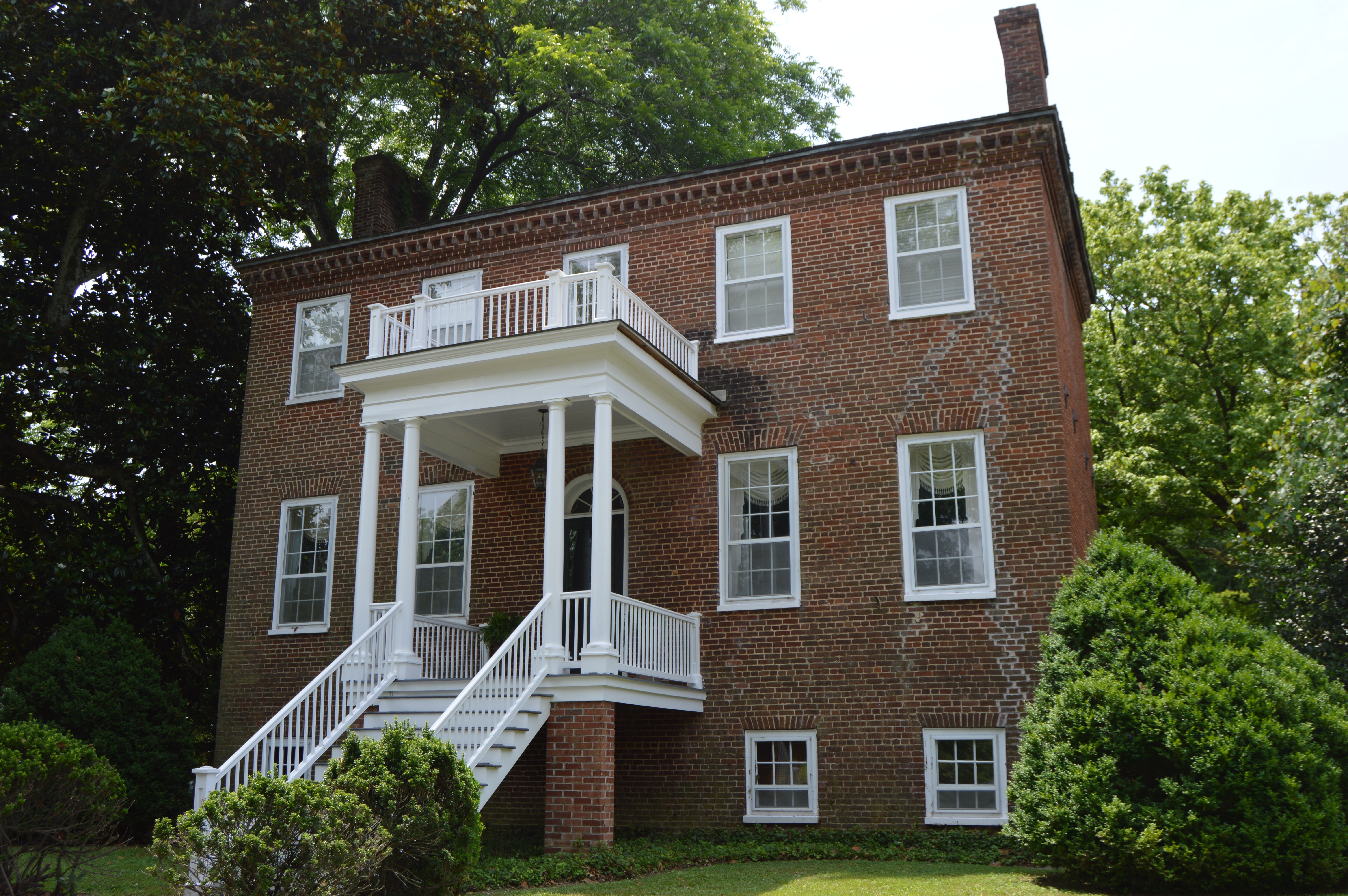 Front and western side of the Myrick House, located at 402 Broad Street in Murfreesboro, North Carolina, United States. Built in 1805, it is listed on the National Register of Historic Places.